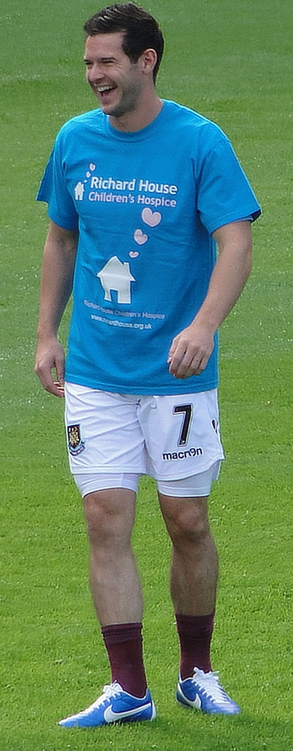 West Ham United player Matt Jarvis warming-up before their Premier League game at The Boleyn Ground against Sunderland